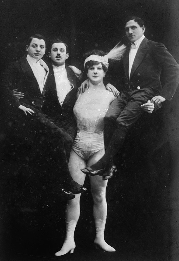 Katie Sandwina, "The Lady Hercules" (1884-1952)